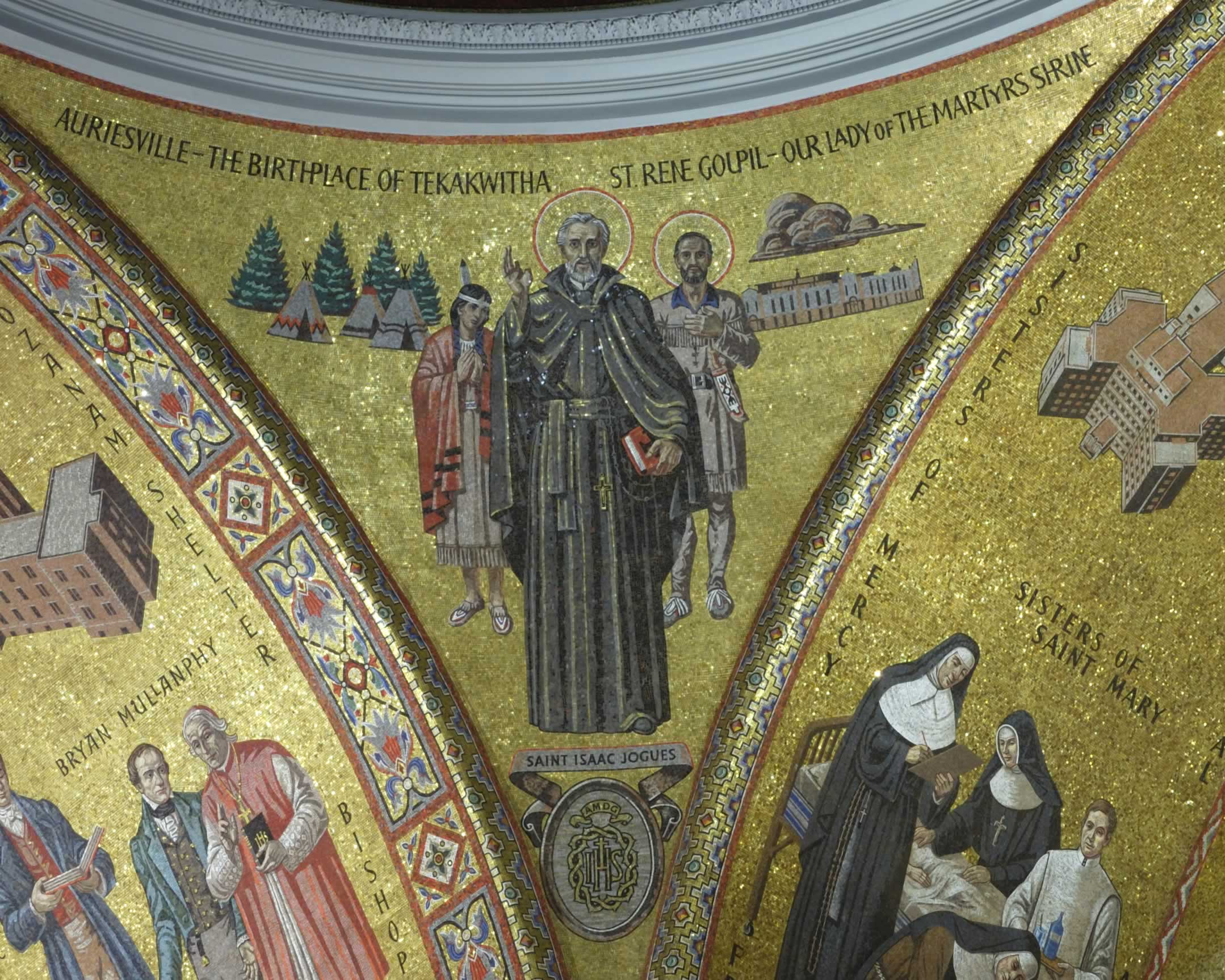 Detail of the mosaics in the Cathedral Basilica of St. Louis in St. Louis, MO